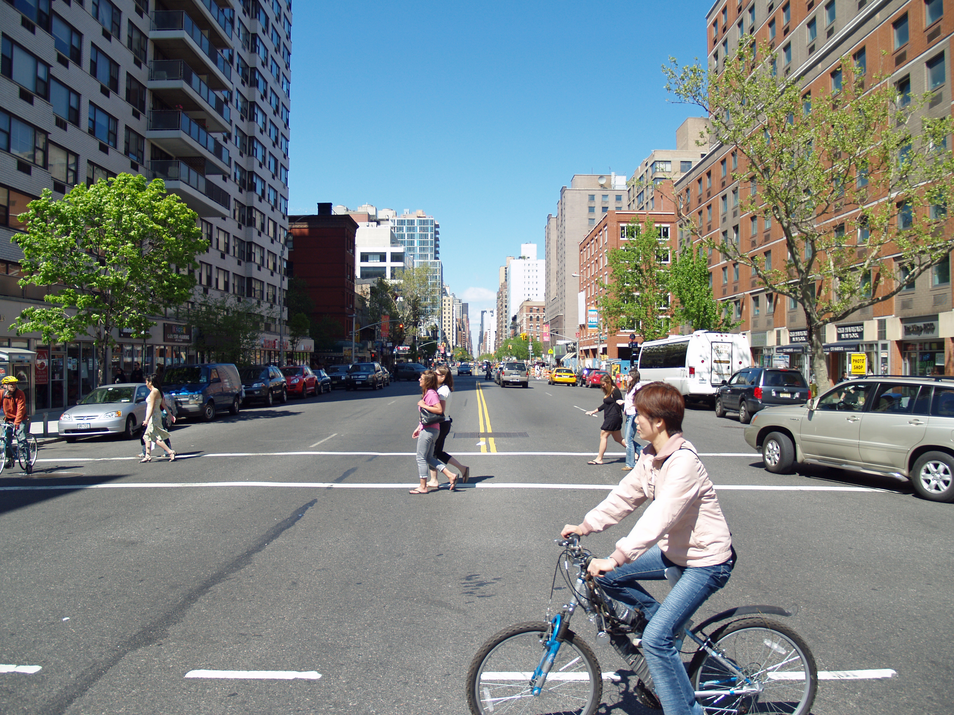 Third Avenue in New York, looking North from 9th Street, by David Shankbone